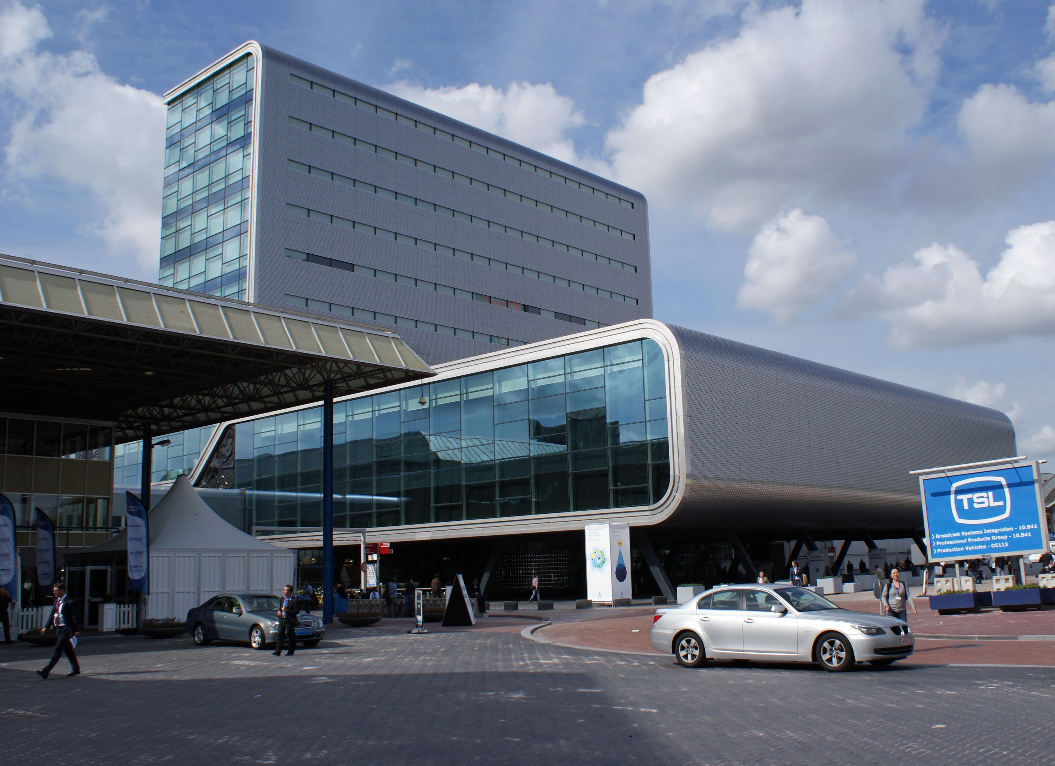 Amsterdam RAI Exhibition and Convention Centre, Elicium, IBC 2010